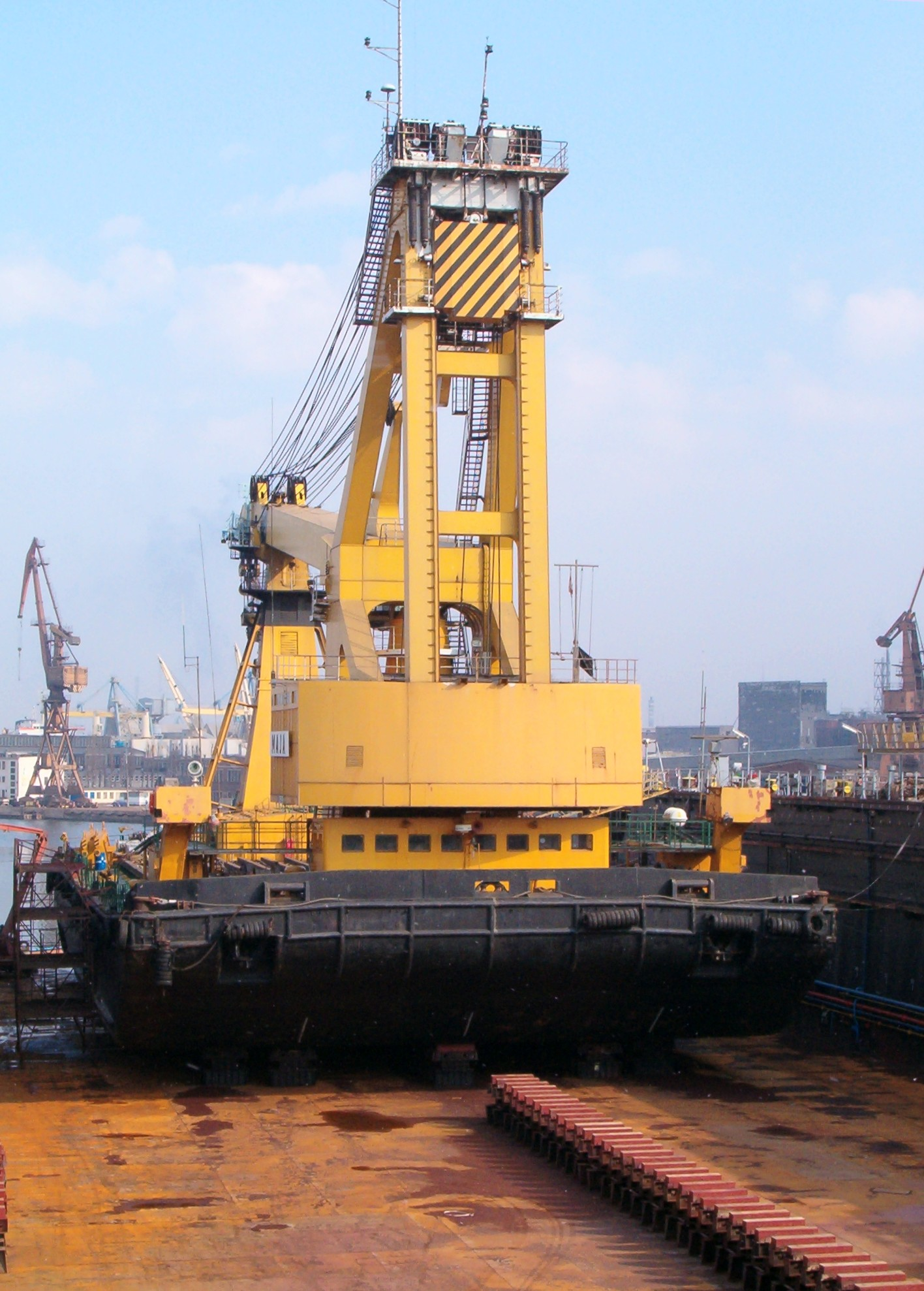 Polish floating crane 'Maja' in dock IMO Number: 8829127 MMSI Number: 261000130 Callsign: SQKR Length: 55 m Beam: 25 m